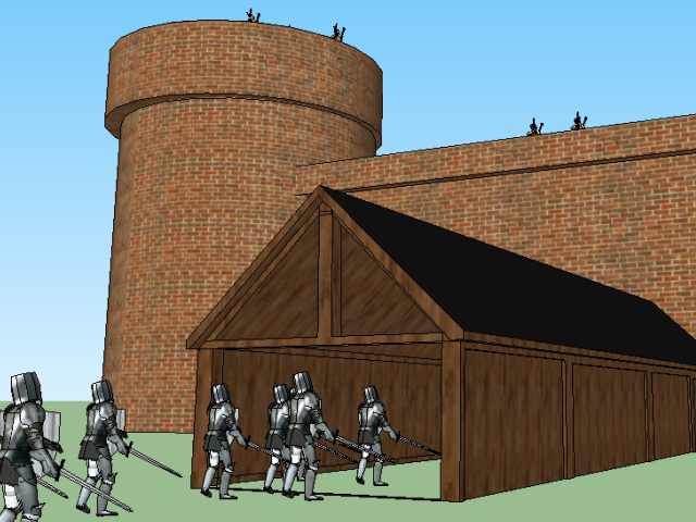 Wooden construction used to attack castle and citywalls. (not a Battering ram)